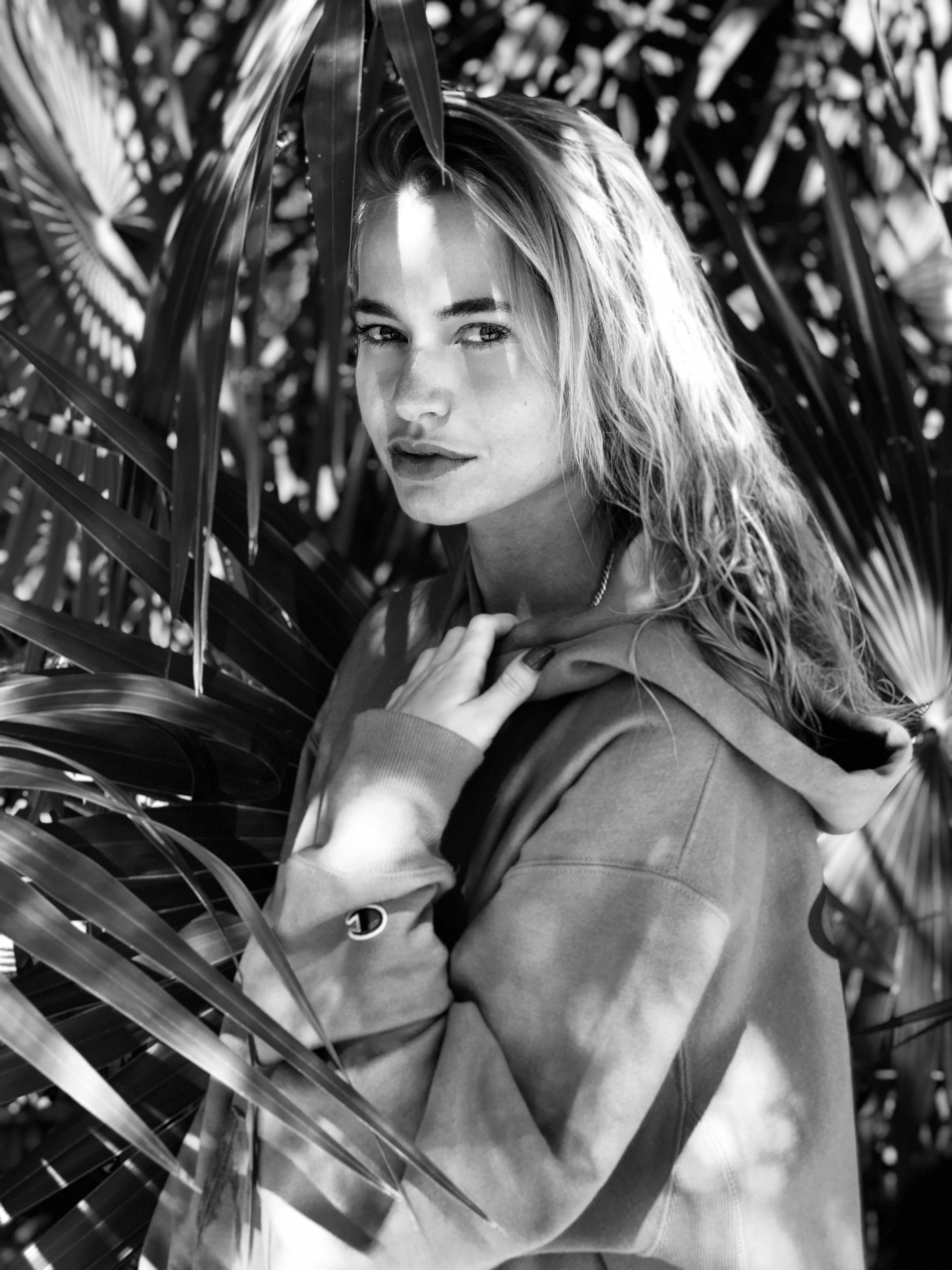 Maria Skobeleva Portrait